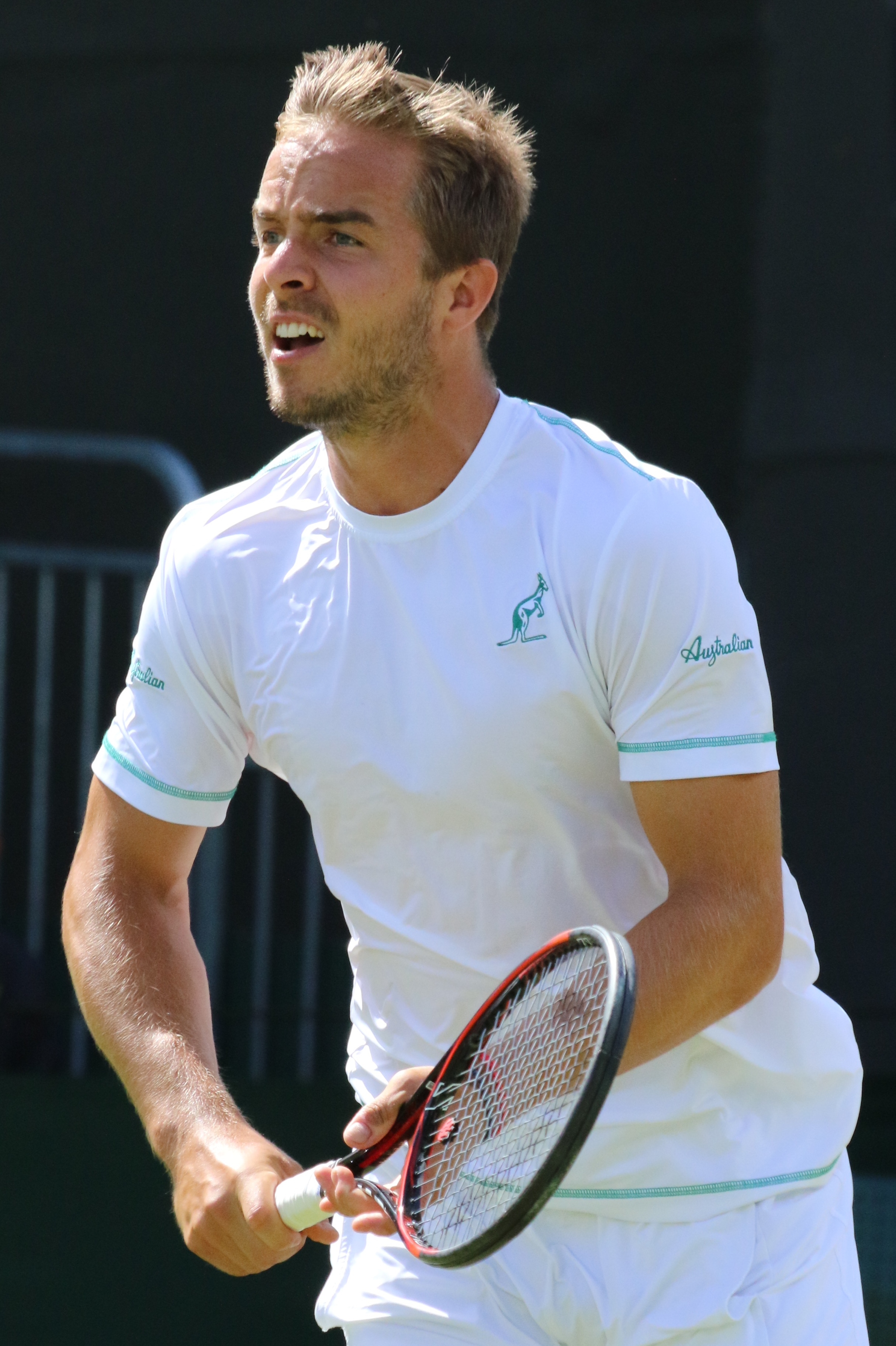 Martin A. WM16 (10)